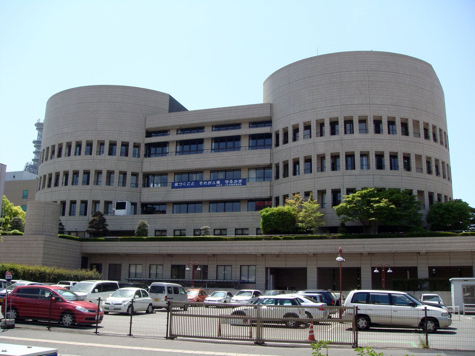 Conpal Hall, Oita City, Oita Pref., Japan